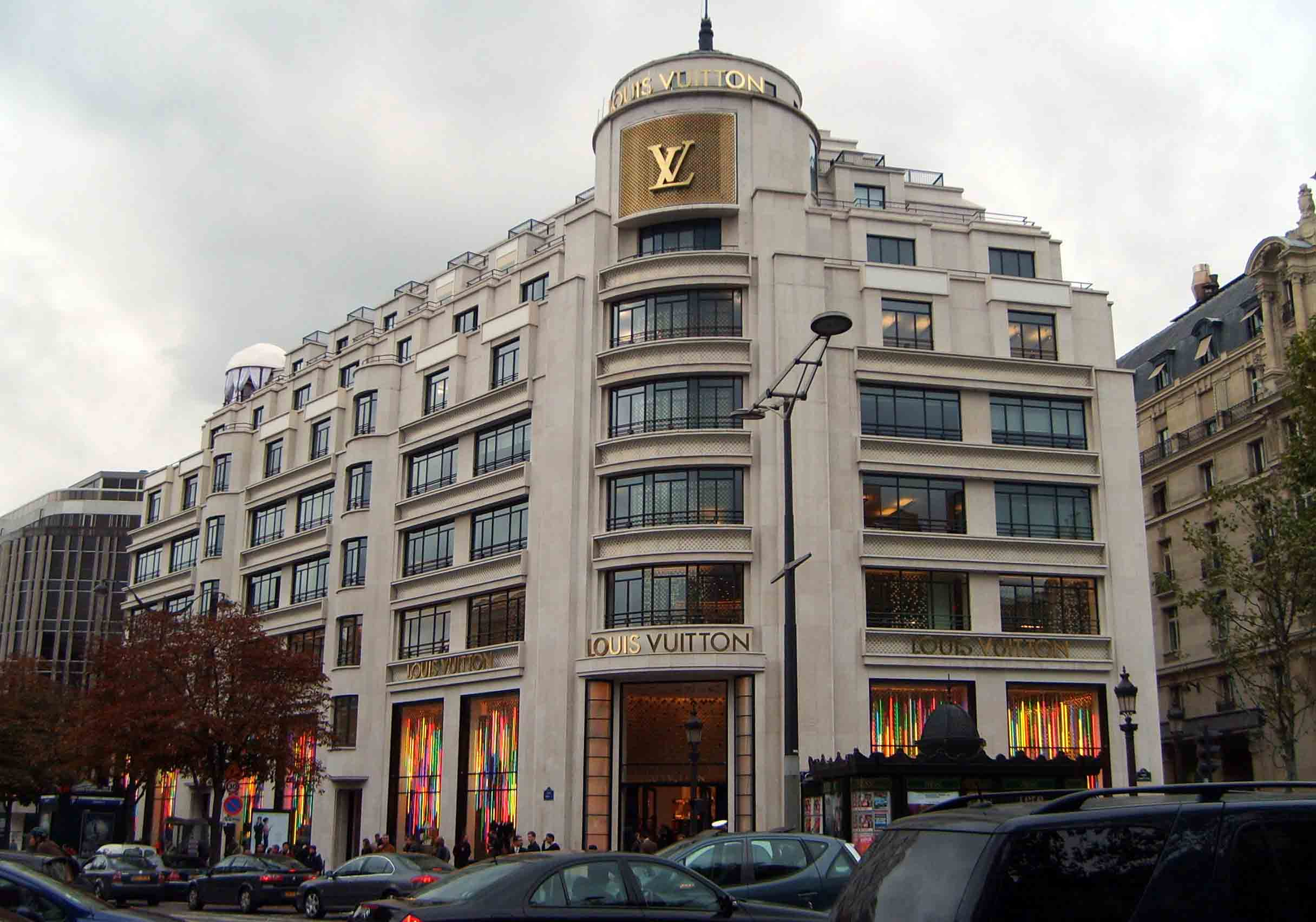 Louis Vuitton, Champs-Elysées Paris 2006. Author: Louise Walsh Location: Paris 2006 Source: Personal photograph taken by Author